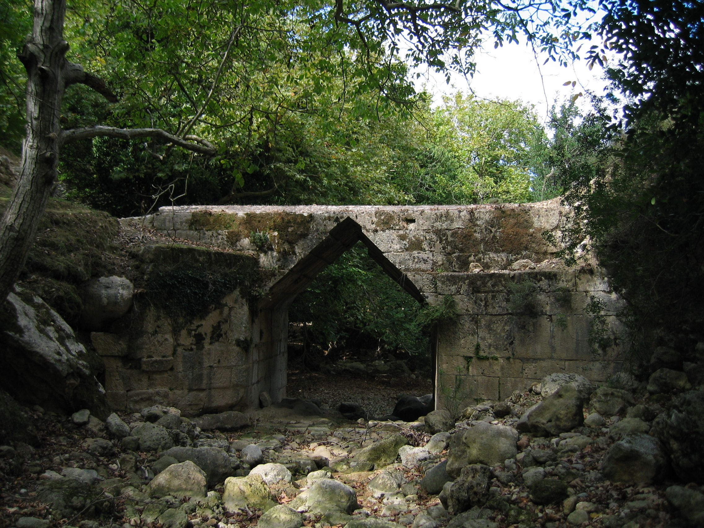 Ancient Greek corbel arch bridge at Eleutherna on the isle of Crete, Greece. View to the south.